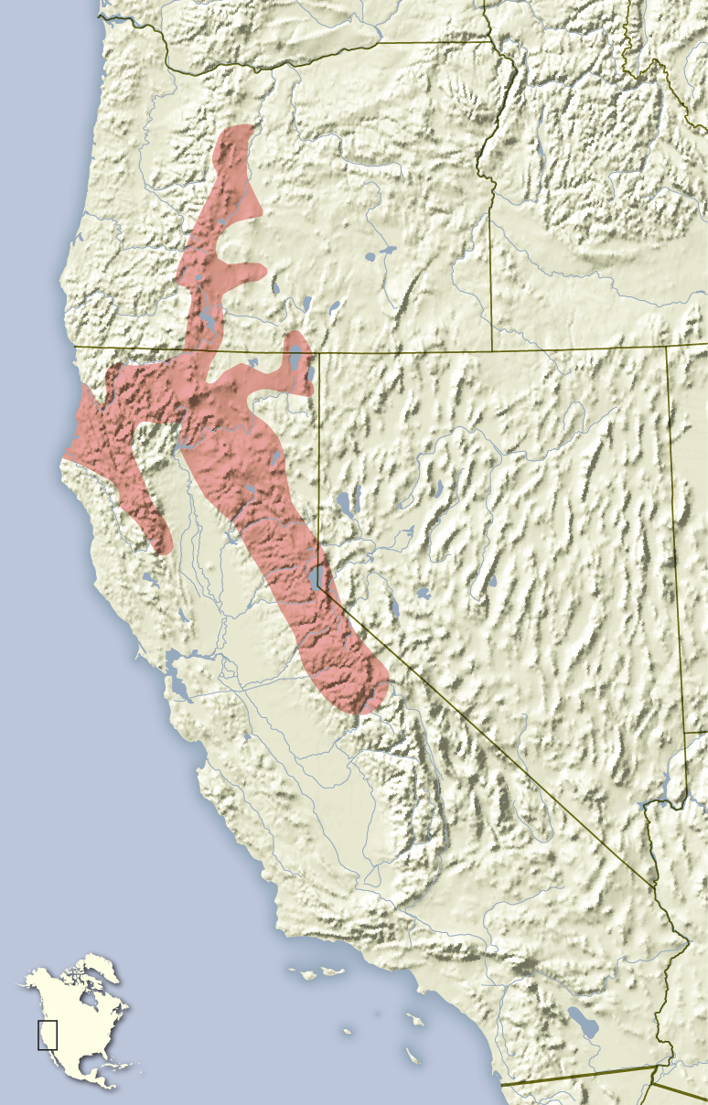 Distribution map of Allen's chipmunk